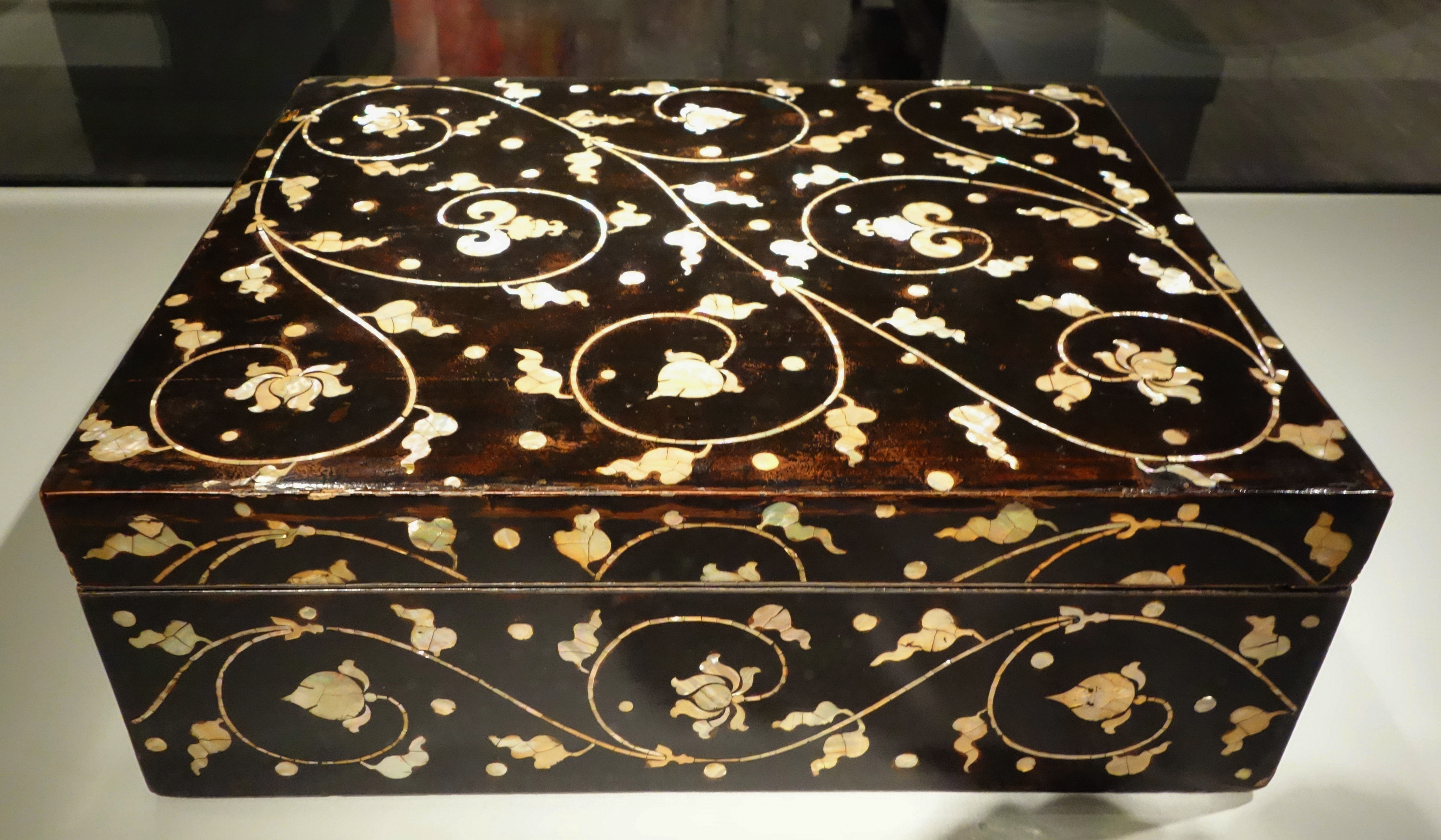 Exhibit in the Asian Art Museum of San Francisco, San Francisco, California, USA. This artwork is in the public domain because the artist died more than 70 years ago.